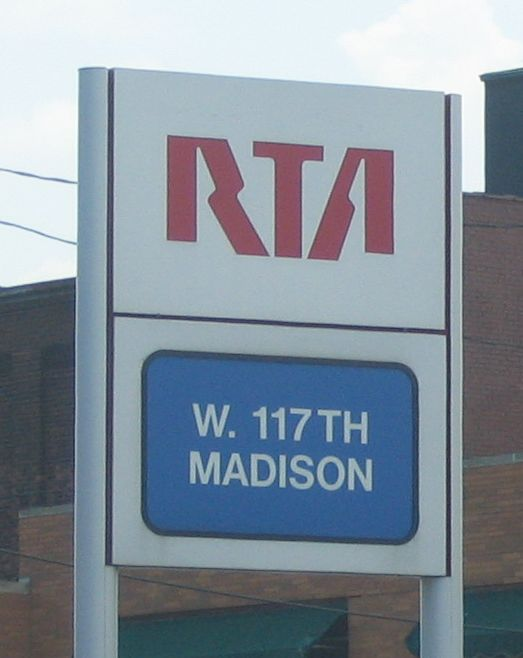 Sign at the entrance to West 117th Station on the Red Line of Cleveland RTA Rapid Transit